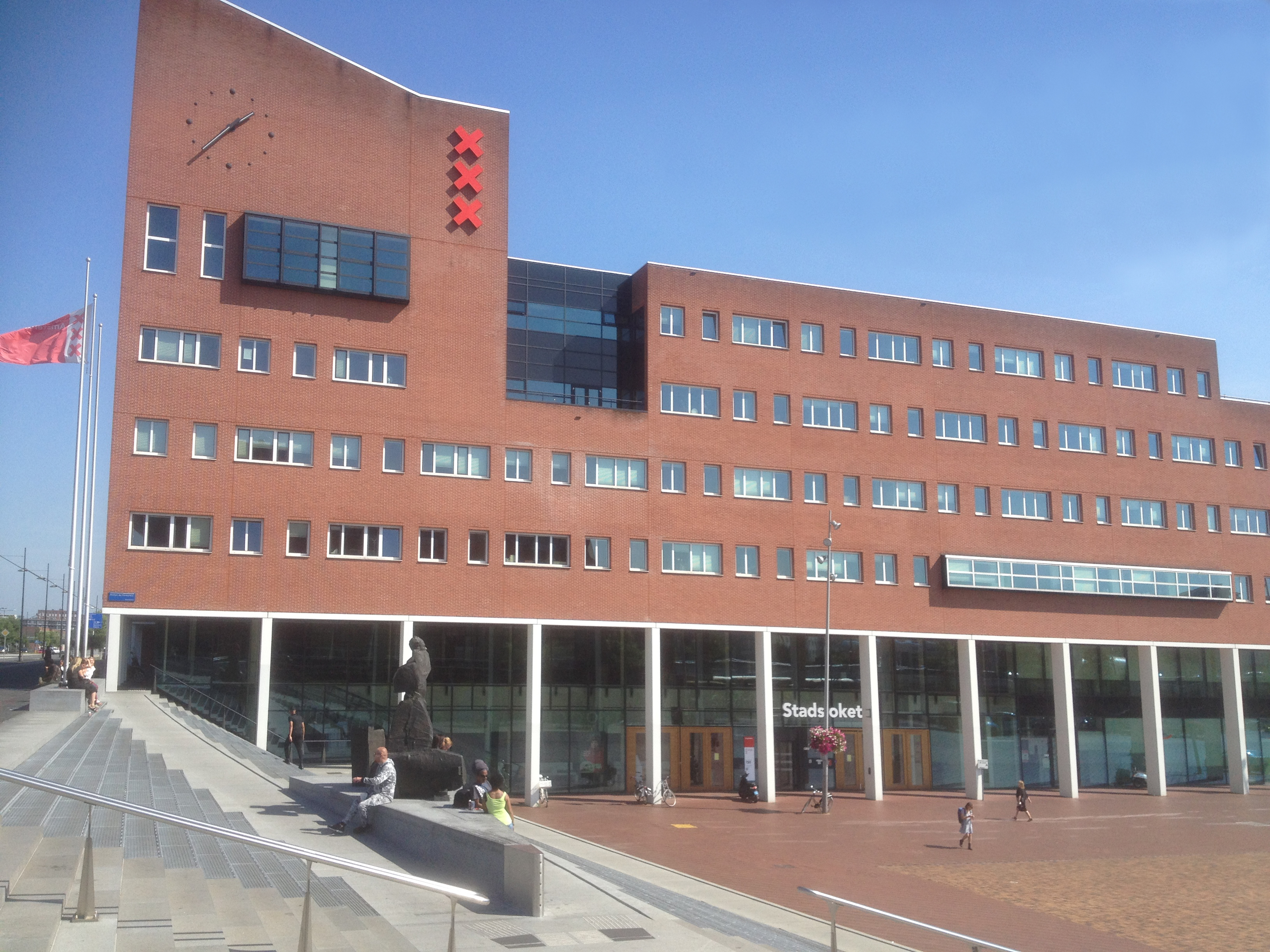 Stadsdeelkantoor Zuidoost van de Gemeente Amsterdam